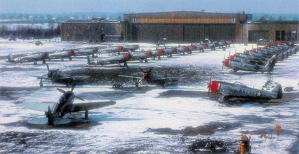 F-47s of the 526th Fighter Squadron - 86th Fighter Wing - Neubiberg Air Base Germany.